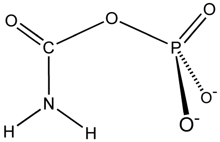 chemical structure of carbamoylphosphate